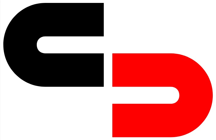 Schneider logo (graphic)